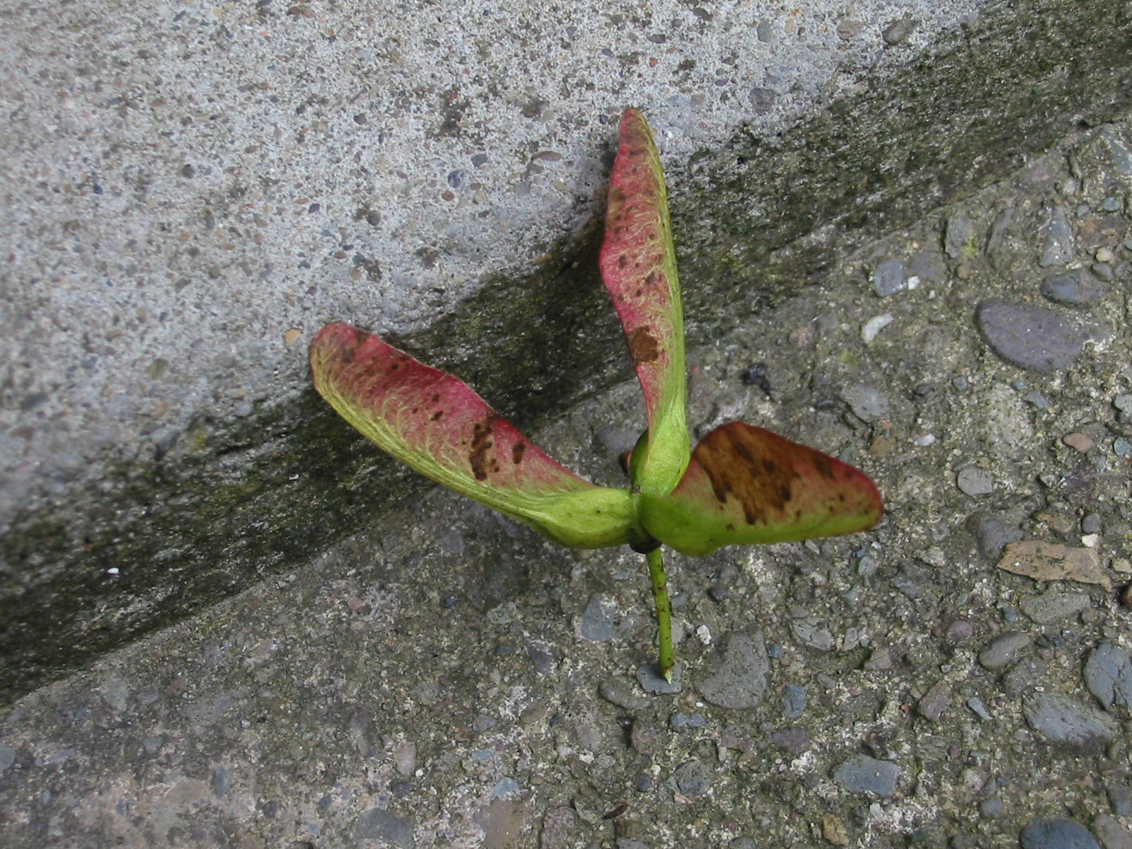 This is a triple samara or seed, from a sycamore (Acer Pseudoplatanus). Sycamore samara are usually double lobed.